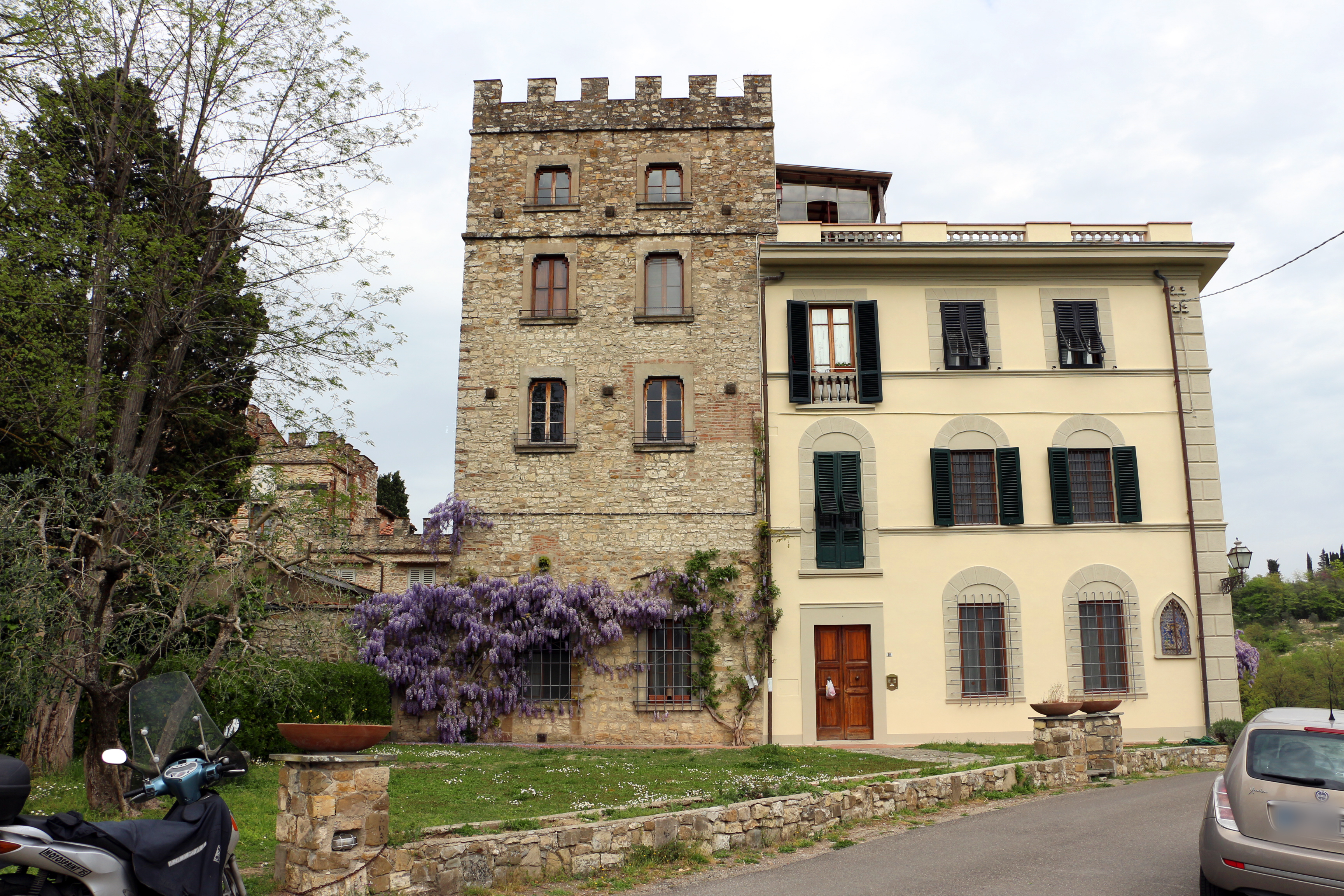 Via della Luigiana, Florence